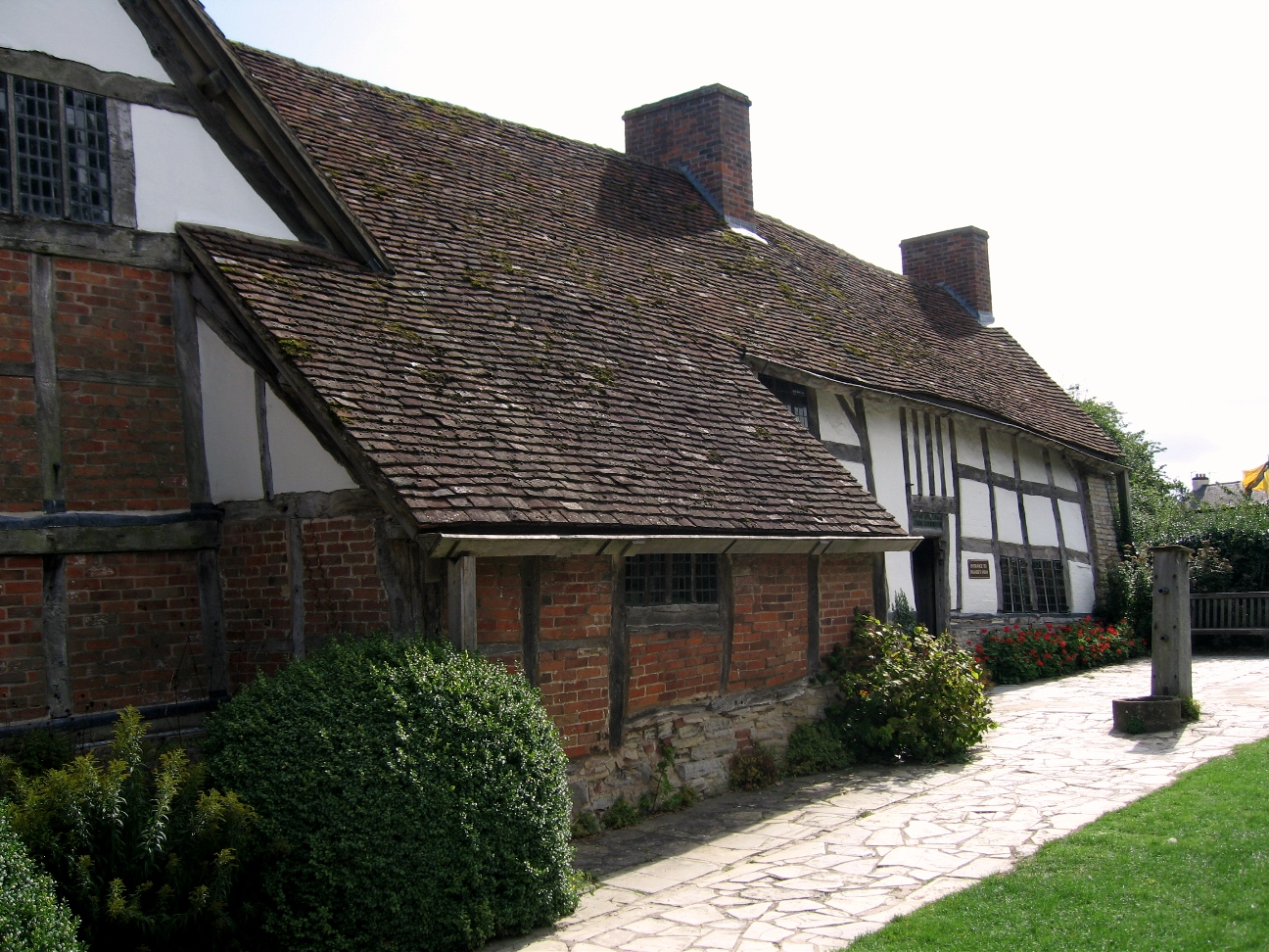 Mary Arden's House (rear view), Wilmcote, Warwickshire, England.